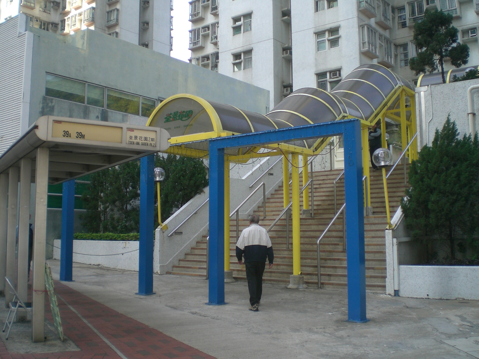 荃灣